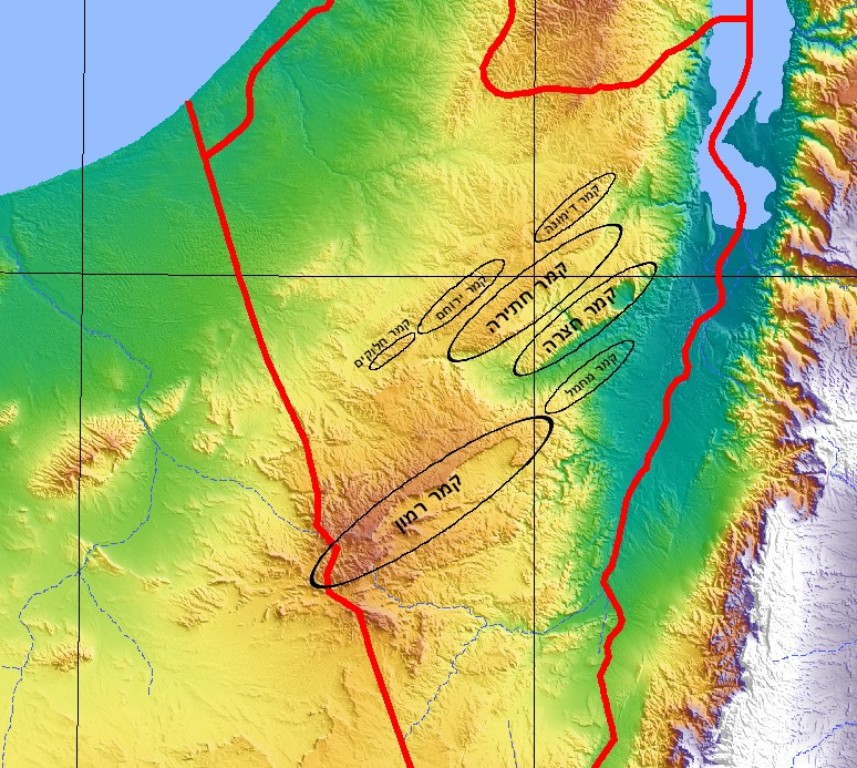 Folds in southern Israel